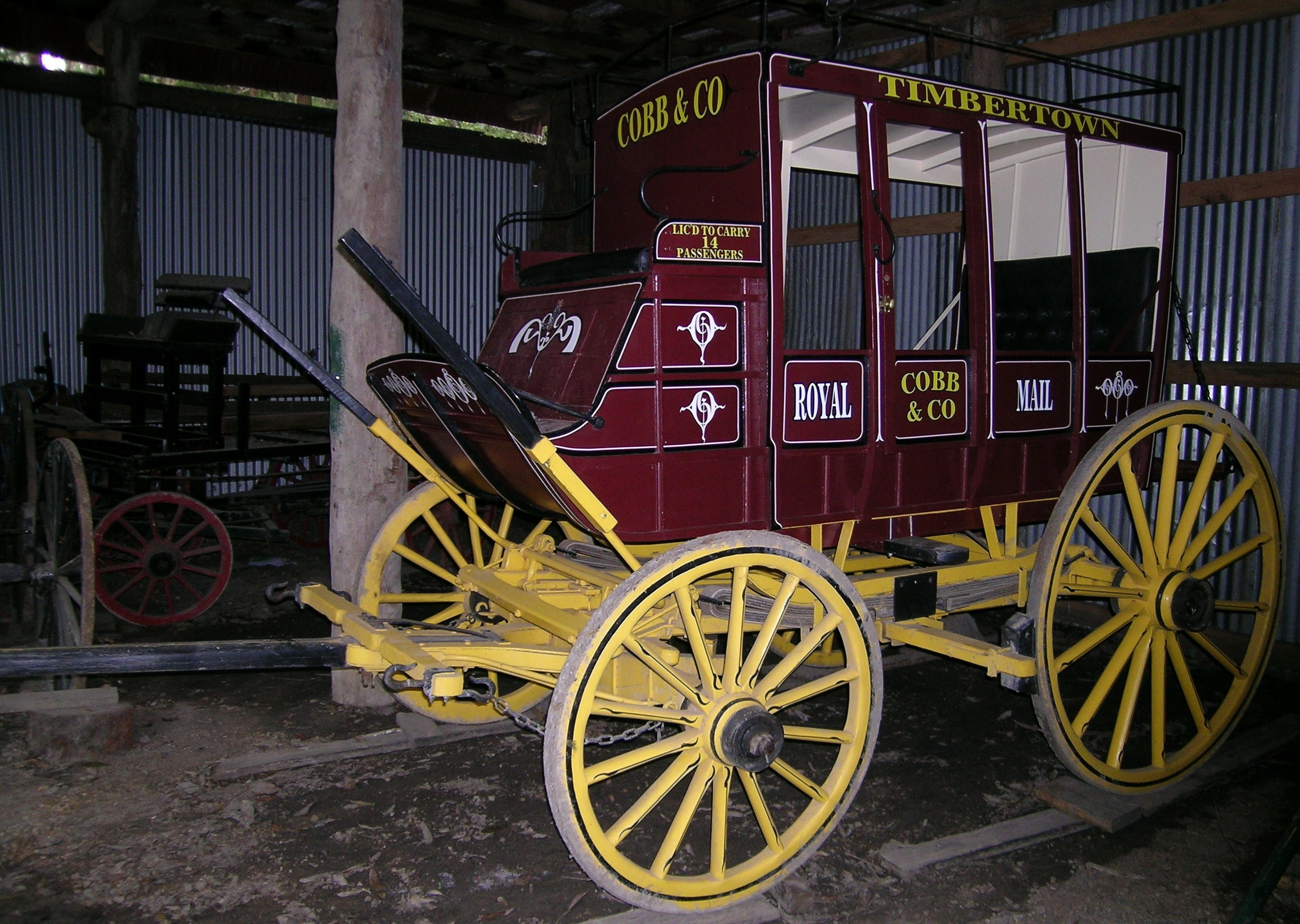 Cobb & Co coach, Timbertown, Wauchope, NSW